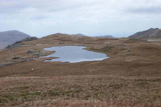 Llyn Caseg Fraith. Llyn Caseg Fraith taken from the footpath that continues up Glyder Fach at grid reference SH 66597 58235.